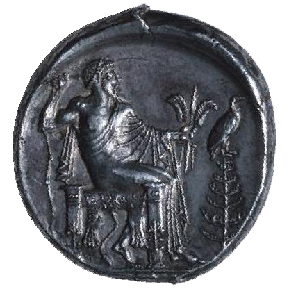 Zeus Aitnaios seated, right, on a richly ornamented throne covered with a lion-skin. He is clad in a ιματιον which hangs over his left shoulder and arm, and he holds in his ex- tended left hand a winged fulmen similar in form to those on the other Catanaean coins. His right shoulder is bare and his right arm, slightly raised, rests on a knotted vine-staff bent into a crook at the top. In the field in front of the figure is an eagle with closed wings perched on the top of a pine-tree. Description from here